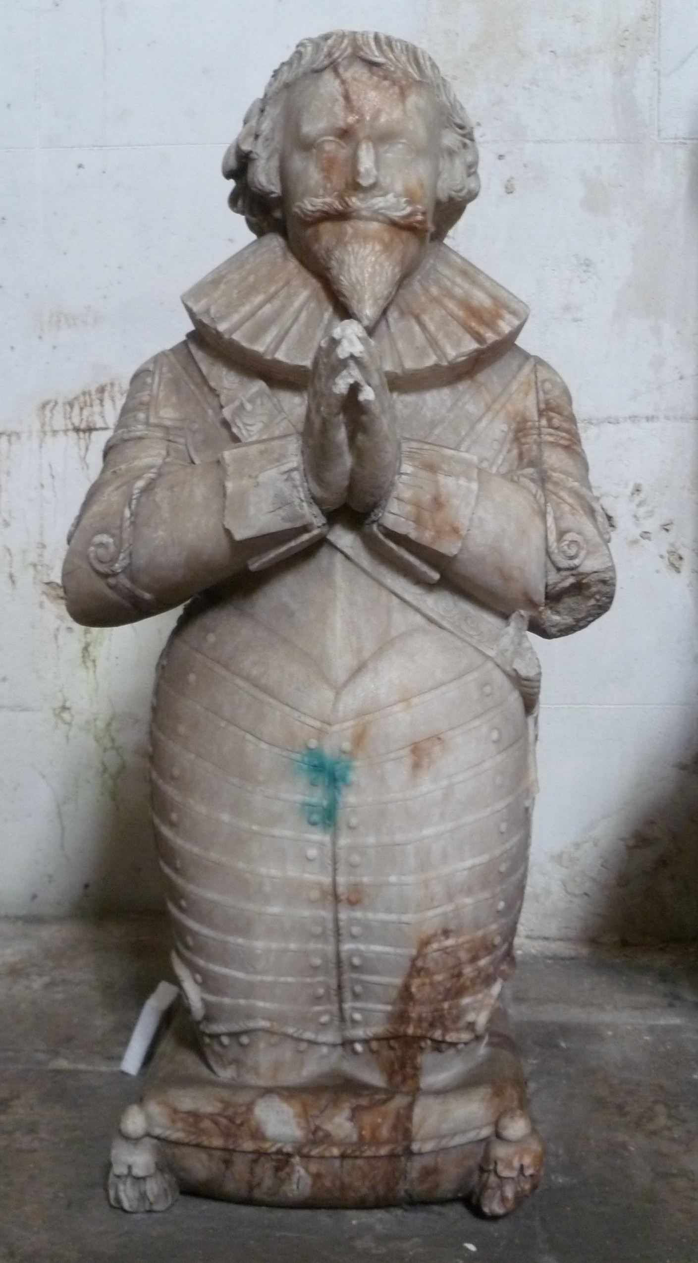 A member of the Bruce family of Culross in Fife. One of a set of 17thC statues depicting the children of Sir George Bruce of Carnock in Culross Abbey.